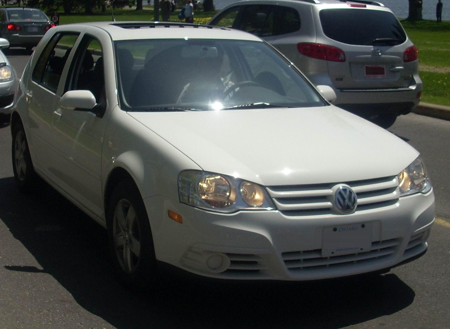 2008 Volkswagen City Golf photographed at the 2008 Ottawa Tulip Festival.